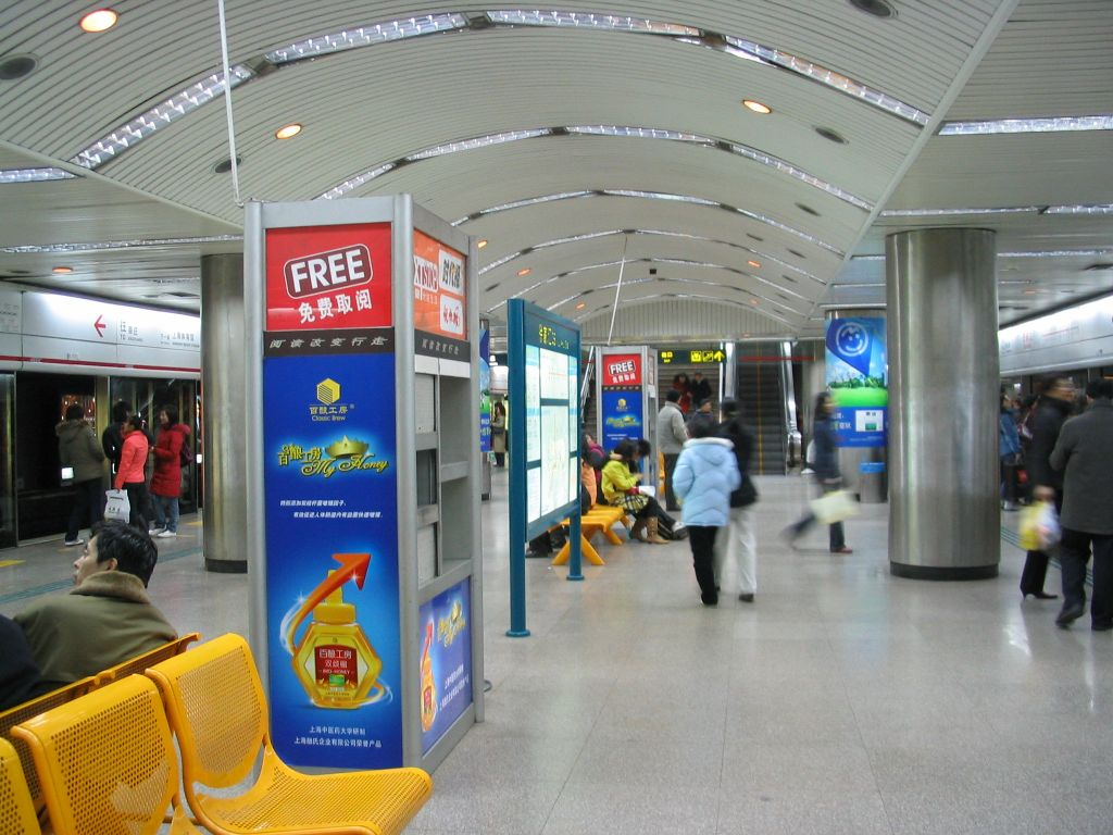 徐家匯站-1號線月台 Line 1 Platform of Xujiahui Station